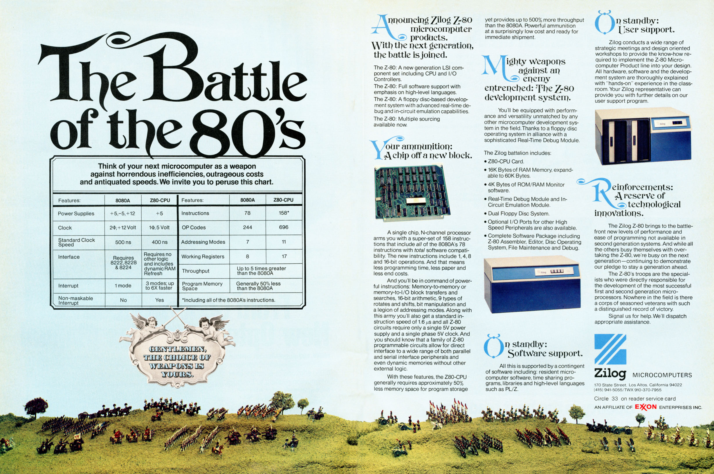 Zilog Z-80 microprocessor advertisement from May 1976. Federico Faggin, Ralph Ungermann and Masatoshi Shima left Intel in late 1975 to start Zilog. Their product was the Z-80, a superset of the Intel 8080. This two page advertisement appeared in the May 27, 1976 issue of Electronics magazine. (Volume 47, Number 11. Pages 32-33.)